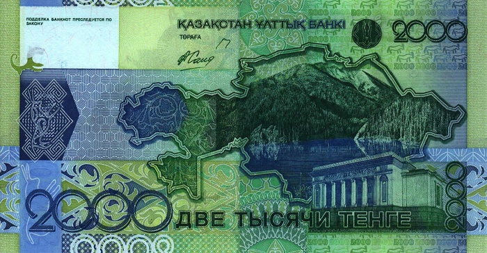 2000 Tenge note with misspelling (2006 printing)